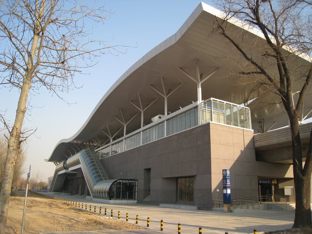 Yizhuang Culture Park station.